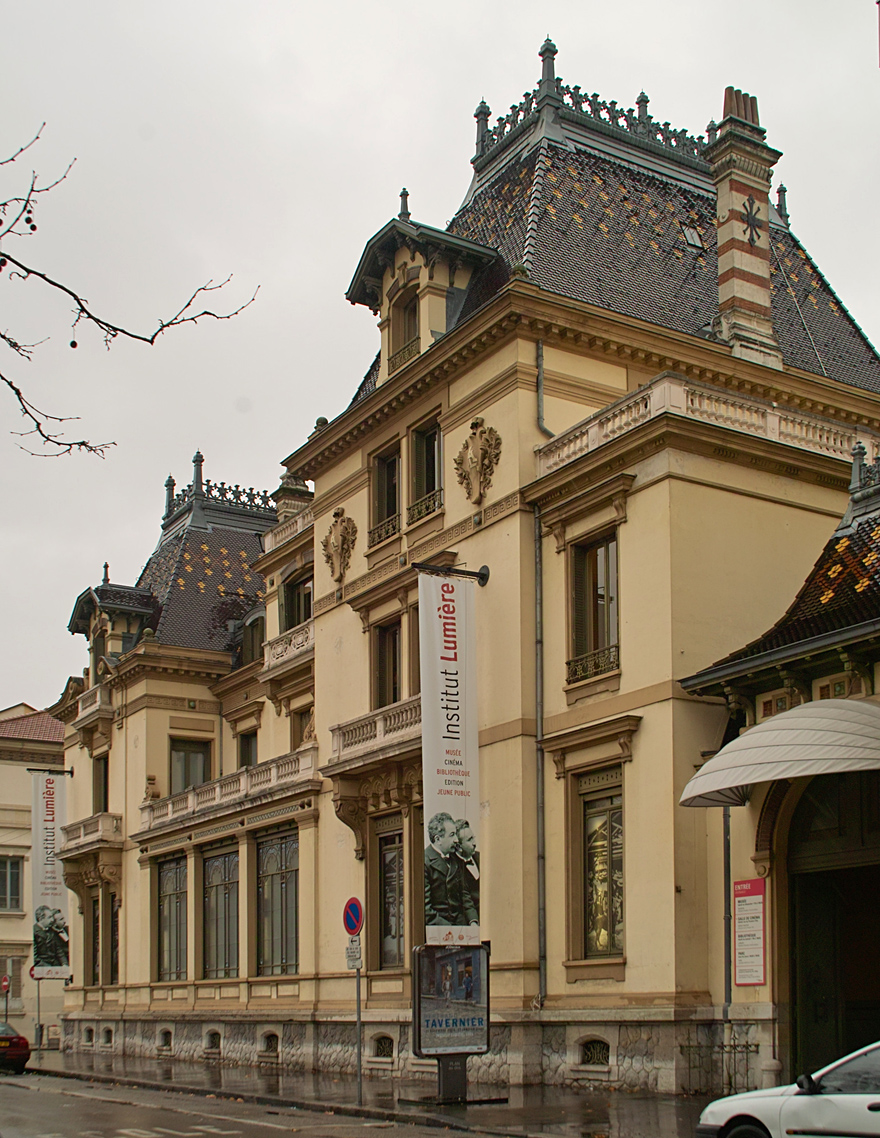 The house of Claude Antoine Lumiére, father of the Lumière brothers, now home of the Lumière Institute museum, in Lyon, France.